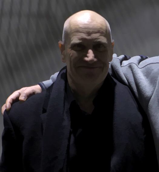 Me and Wilko